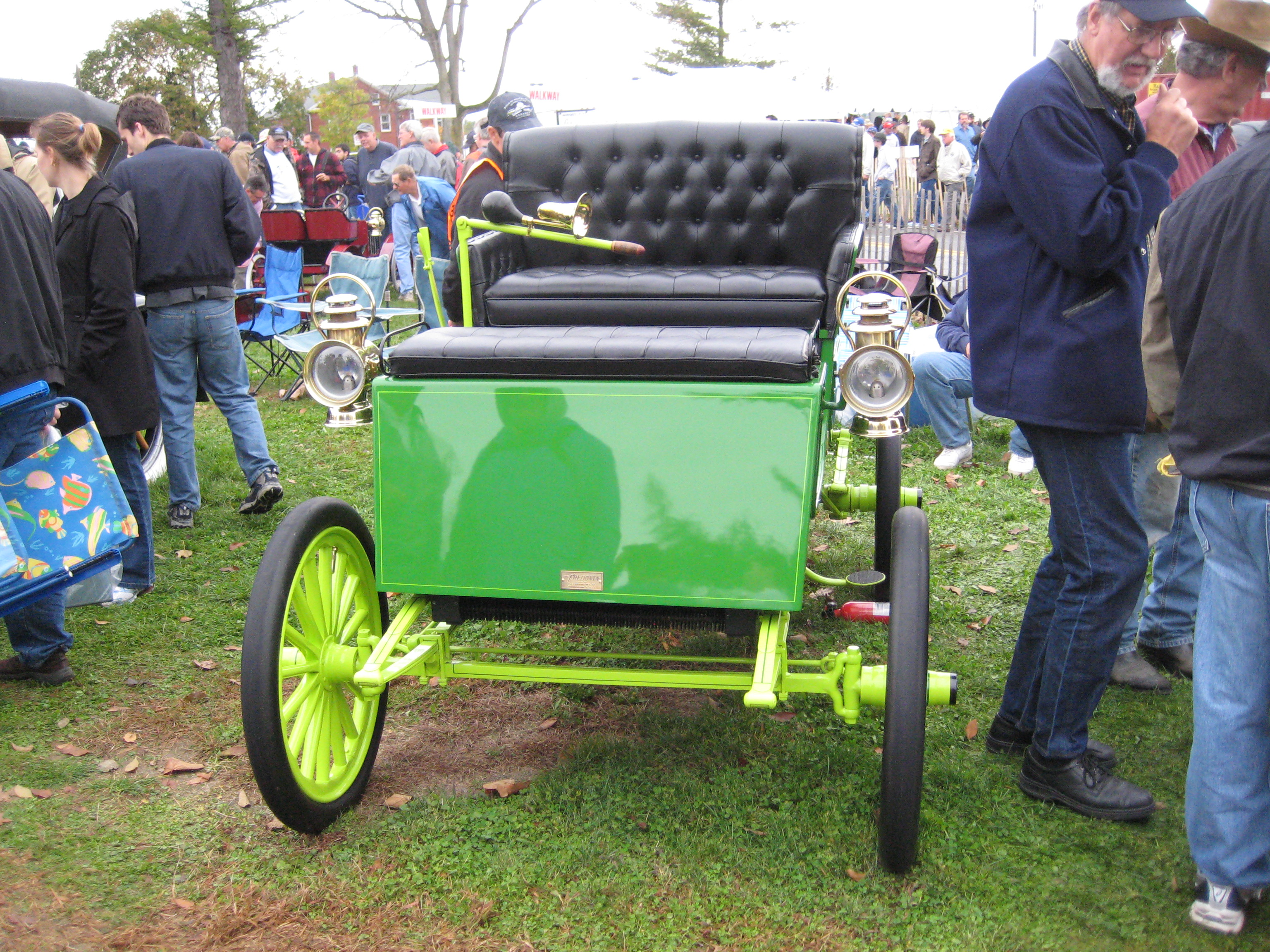 Seen at the judged car show, AACA Eastern Region Fall Meet, Hershey, Pennsylvania, October 2009